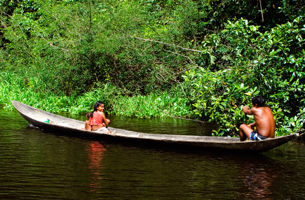 A Warao family using a monoxylon on a small Orinoco Delta caño, located near the Monagas border with Delta Amacuro in Venezuela.